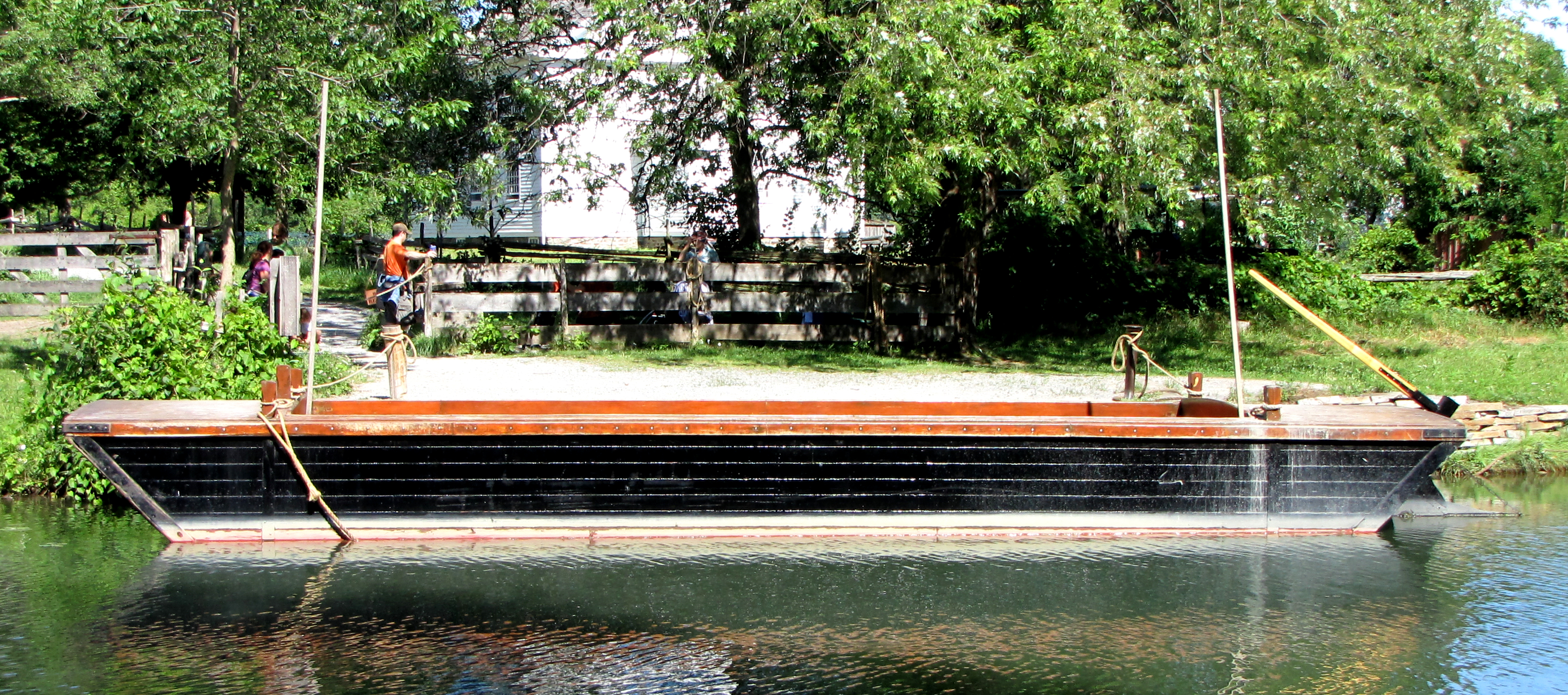 Tow Scow at dock near entrance to Upper Canada Village